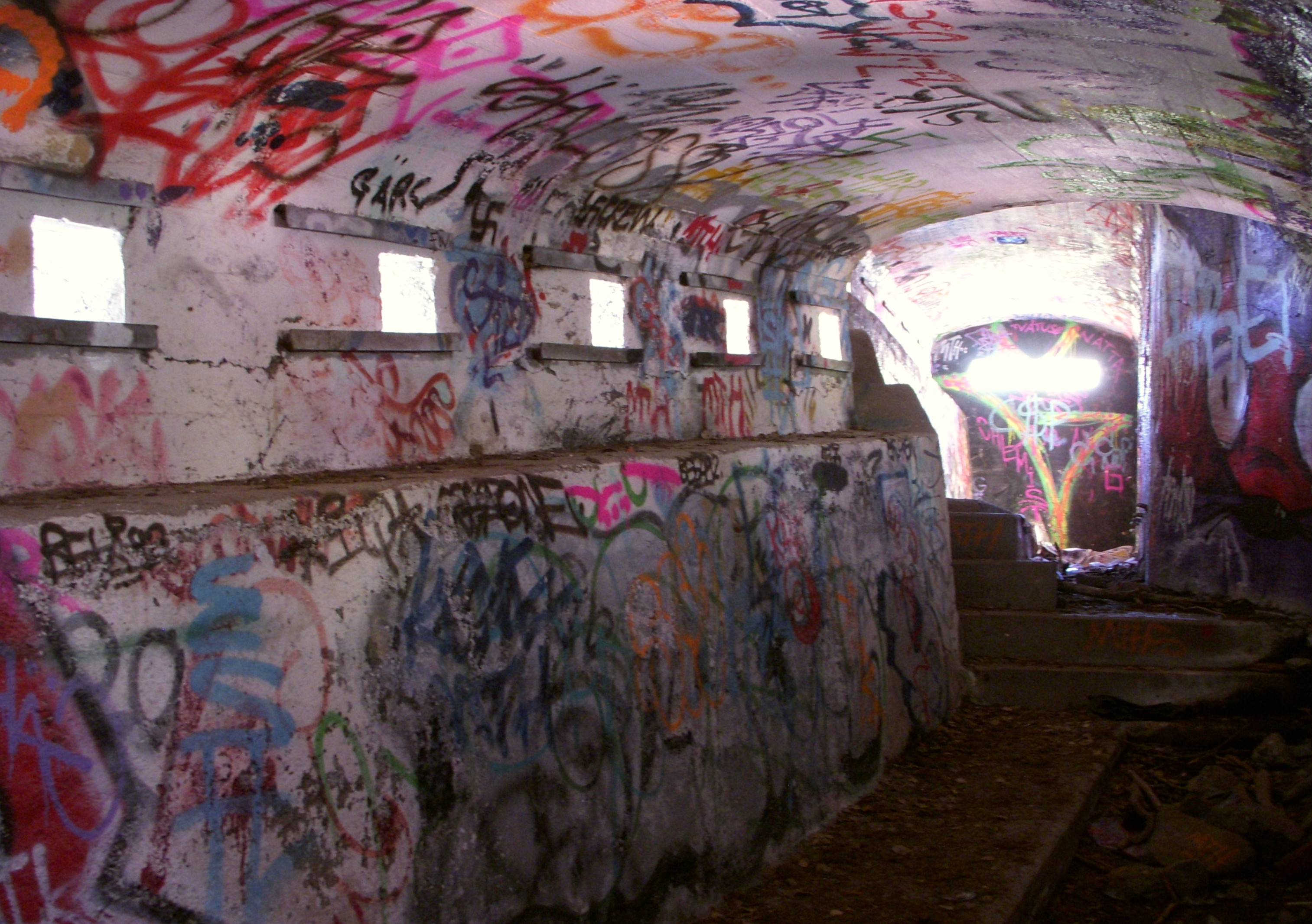 Måndalsfortet i Tyresö, södra Stockholm, maj 2011